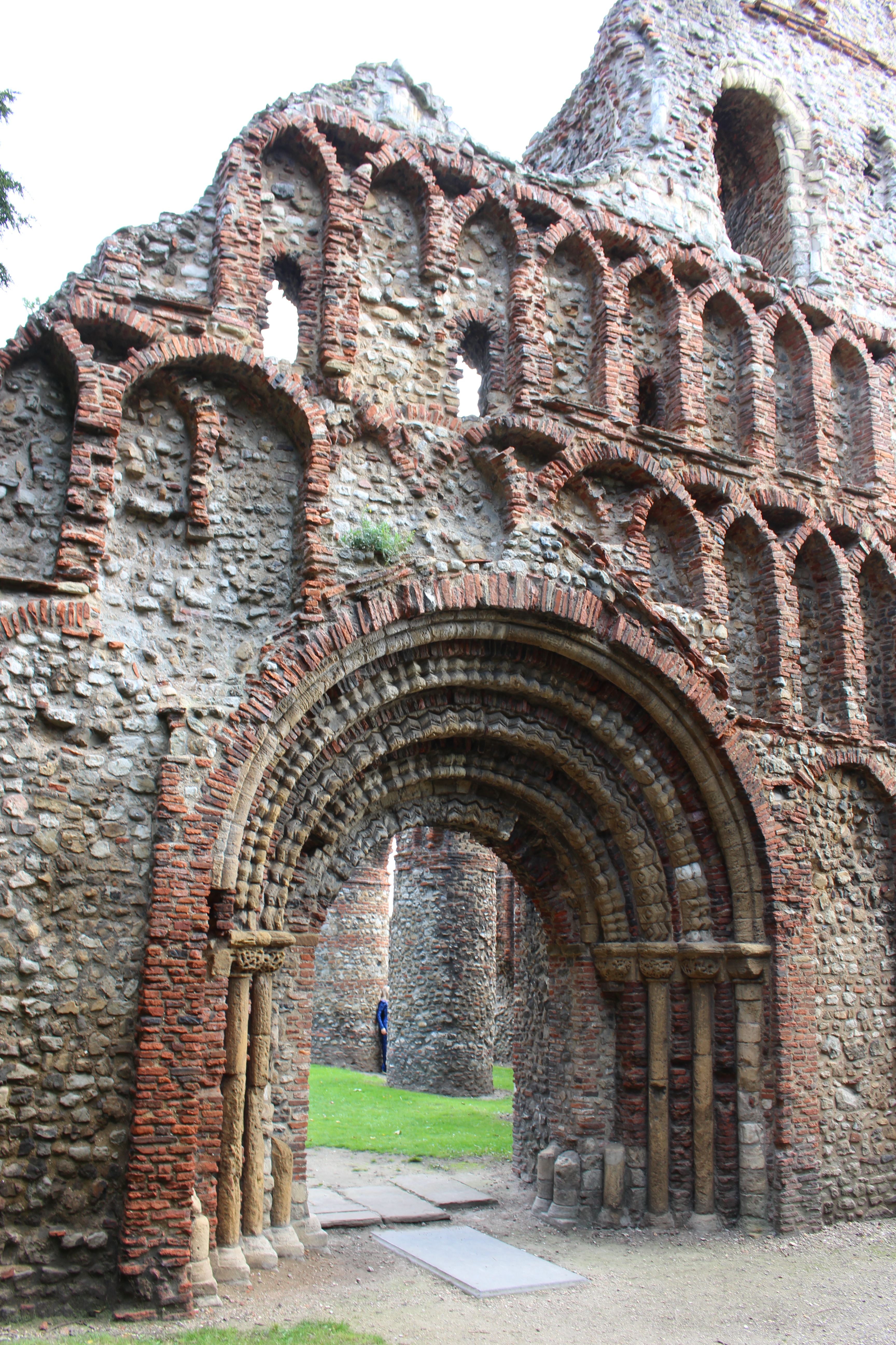 Ruins of Priory Church of St Botolph